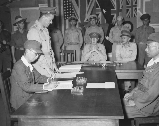 THE SOLOMON ISLANDS, 1945-09-08. LIEUTENANT GENERAL MASATANE KANDA, COMMANDER JAPANESE XVII ARMY, SIGNING THE INSTRUMENT OF SURRENDER AT II AUSTRALIAN CORPS HEADQUARTERS, TOROKINA, BOUGAINVILLE ISLAND, WITH BRIGADIER A.R.GARRETT (BGS II CORPS) LOOKING ON. THE OTHER JAPANESE OFFICER IS VICE ADMIRAL BARON TOMOSHIGE SAMEJIMA, COMMANDER EIGHTH FLEET. SEATED AT THE HEAD OF THE TABLE IS LIEUTENANT GENERAL SIR STANLEY G. SAVIGE (GOC II CORPS) WHILST STANDING BEHIND (PARTLY OBSCURED) IS AIR COMMODORE G.N. ROBERTS (RNZAF AIR TASK FORCE) AND THE OFFICER IN THE AMERICAN UNIFORM IS LIEUTENANT COLONEL J.P.COURSEY (US MARINES). THE TWO SWORDS WERE HANDED OVER BY THE JAPANESE OFFICERS. (RNZAF OFFICIAL PHOTOGRAPH.)